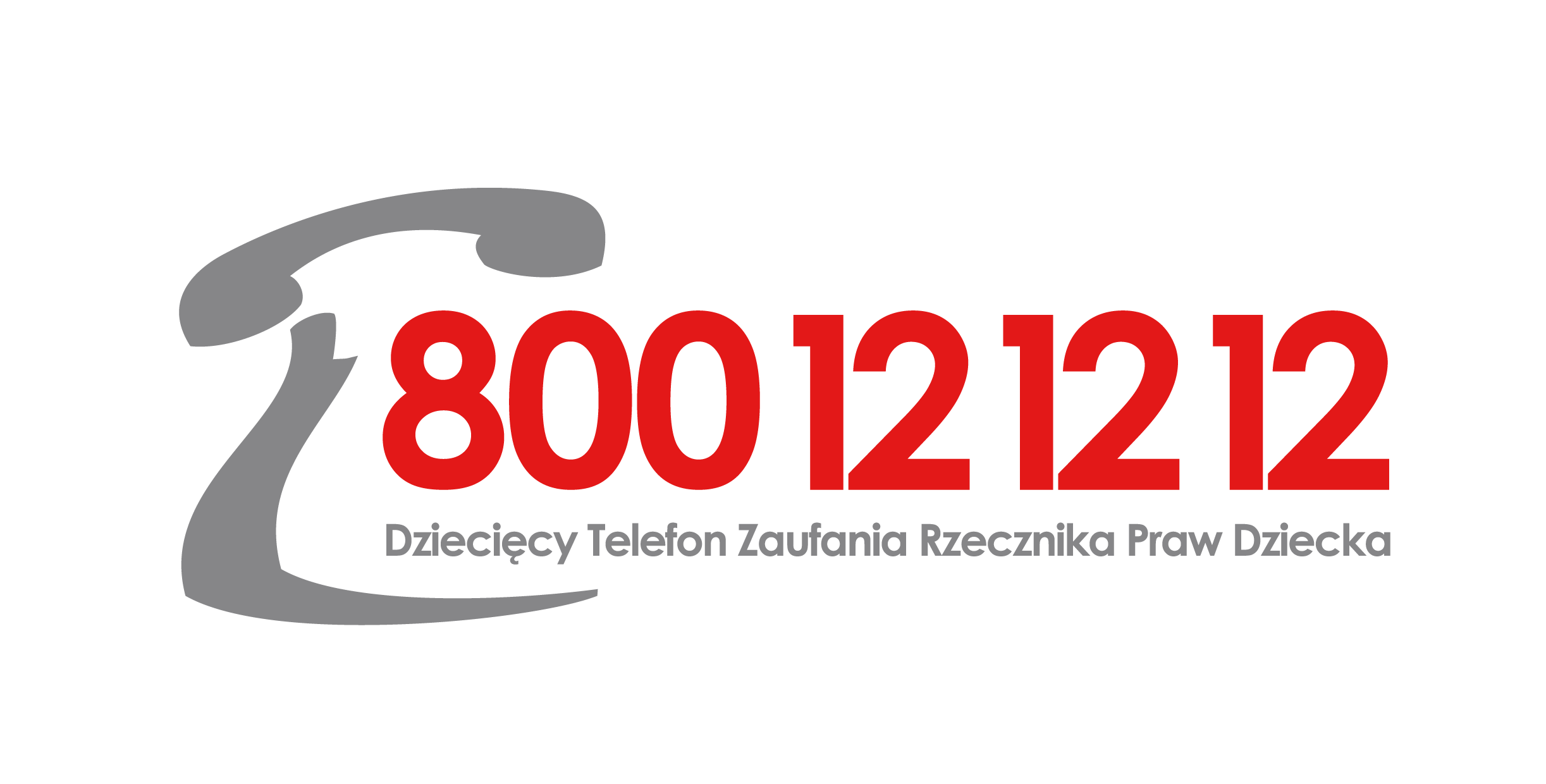 Logo DTZ